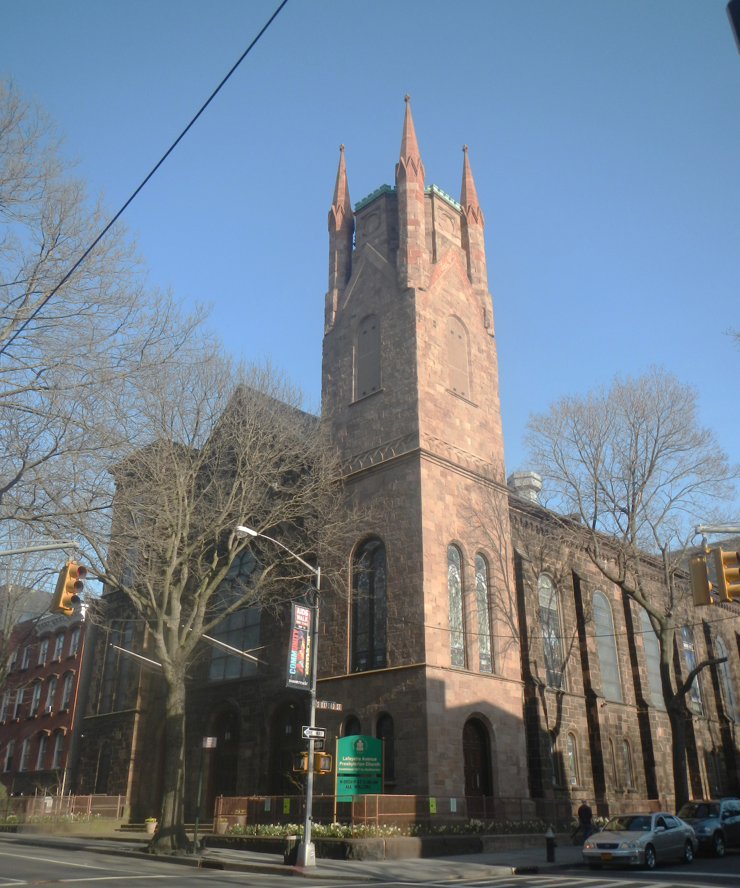 Looking southeast across Lafayette Avenue at church on a sunny late afternoon.